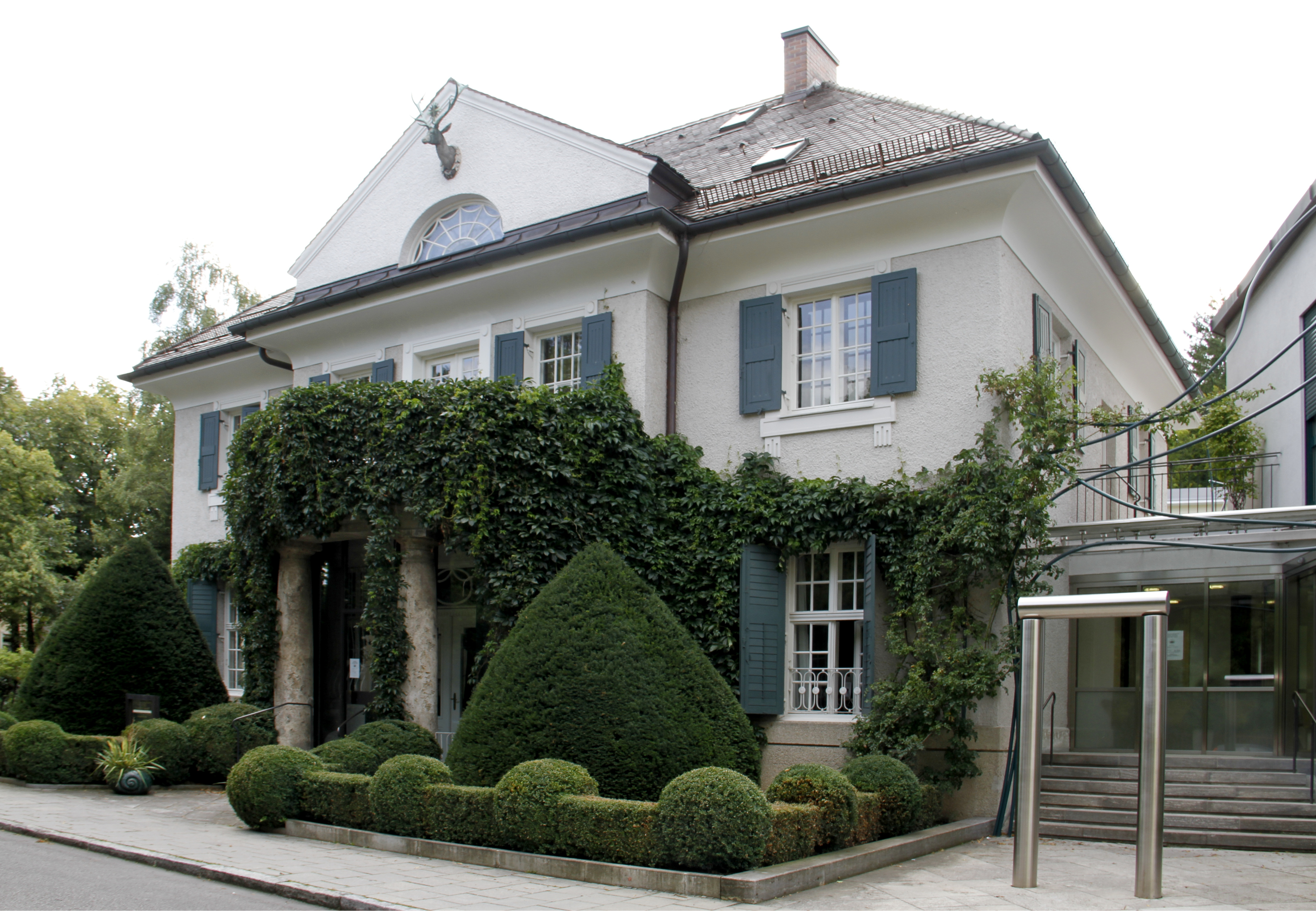 Listed building at Diefenbachstraße 2, Solln, Munich, Germany. Former pharmacy "Hubertusapotheke", built 1906-07 by Emanuel von Seidl.